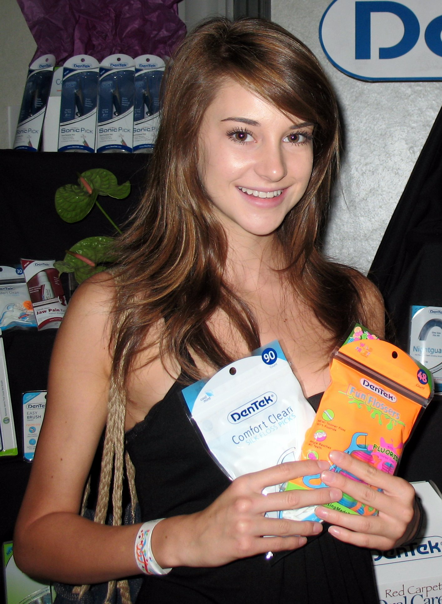 Photo of a girl holding two packets